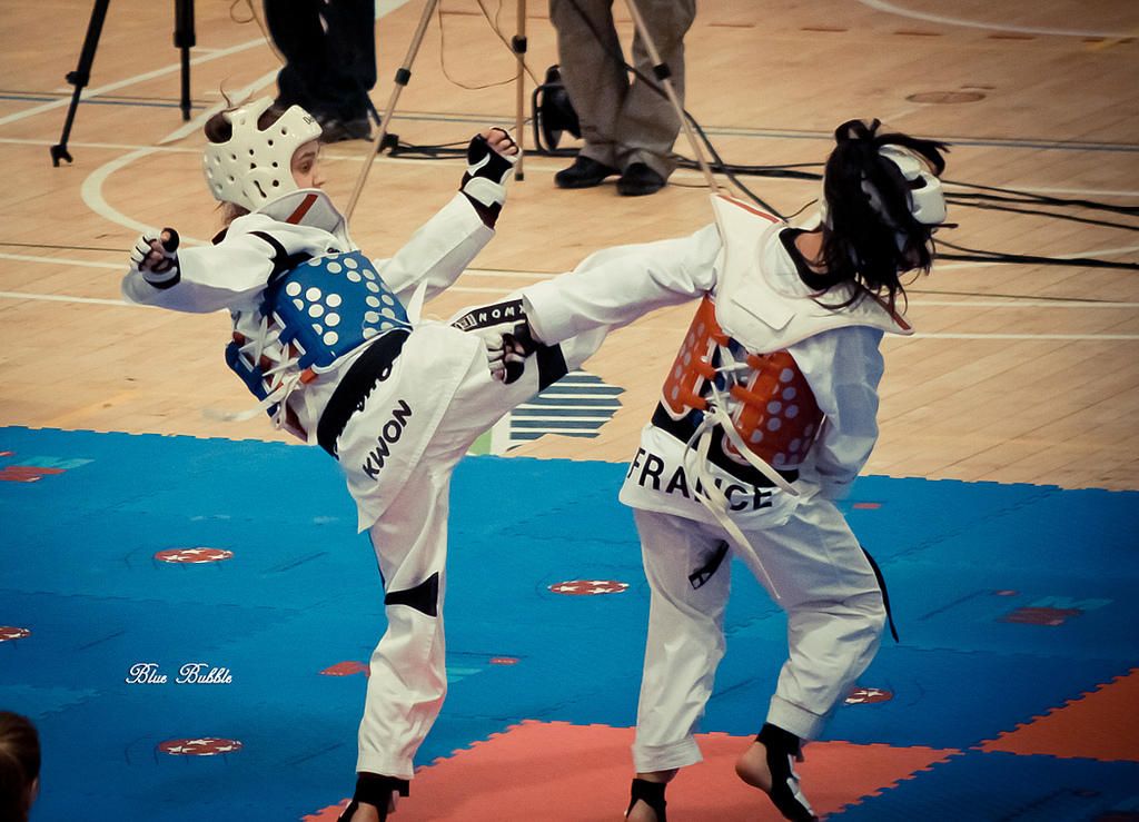 Taekwondo Fighting